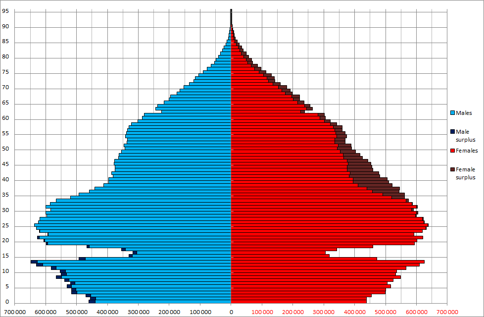 Population of Germany by аge and sex (demographic pyramid) as of June, 16, 1933